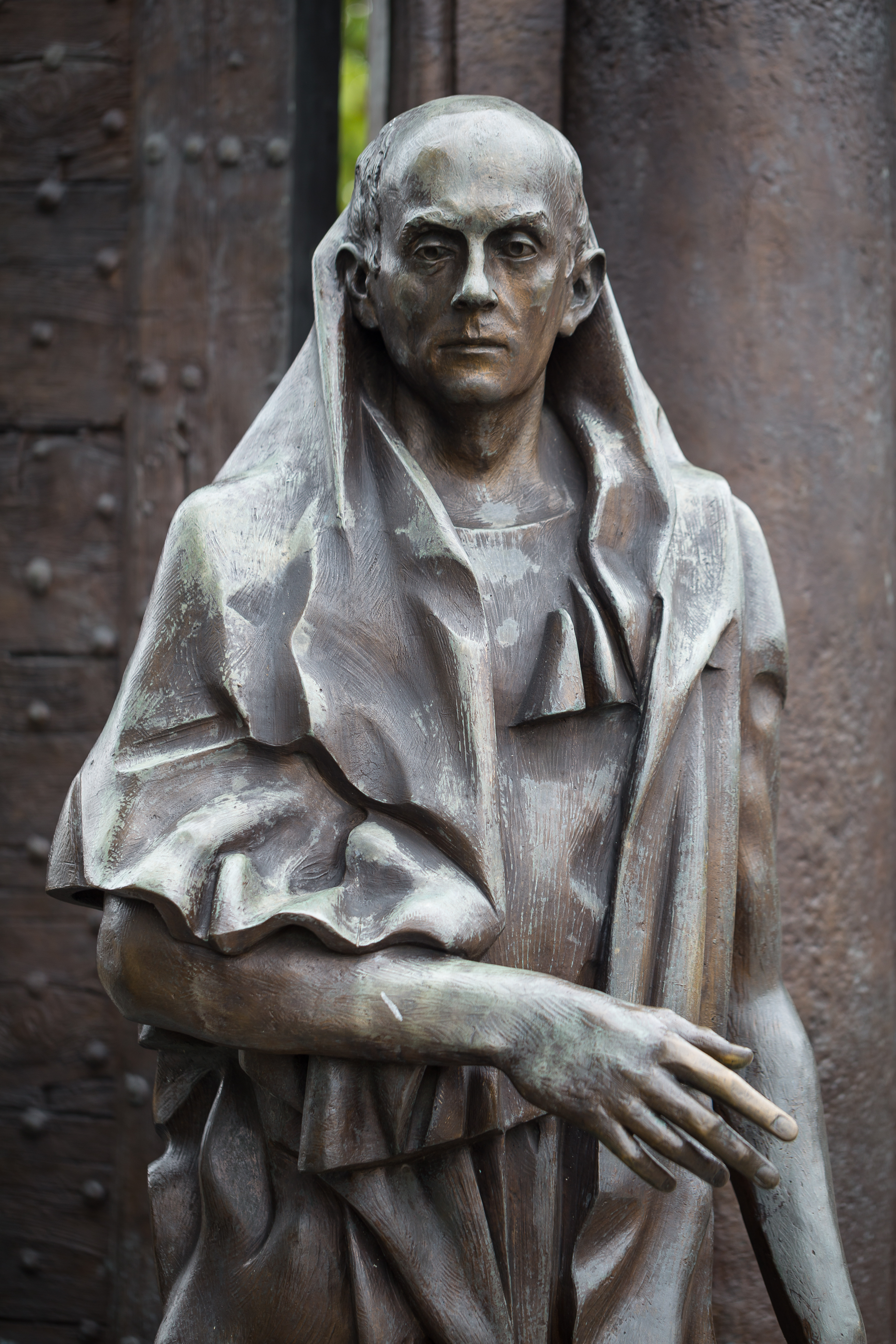 Sculpture "Goettinger Sieben" by Floriano Bodini (1933 - 2005) at Platz der Goettinger Sieben in Hanover, Germany.